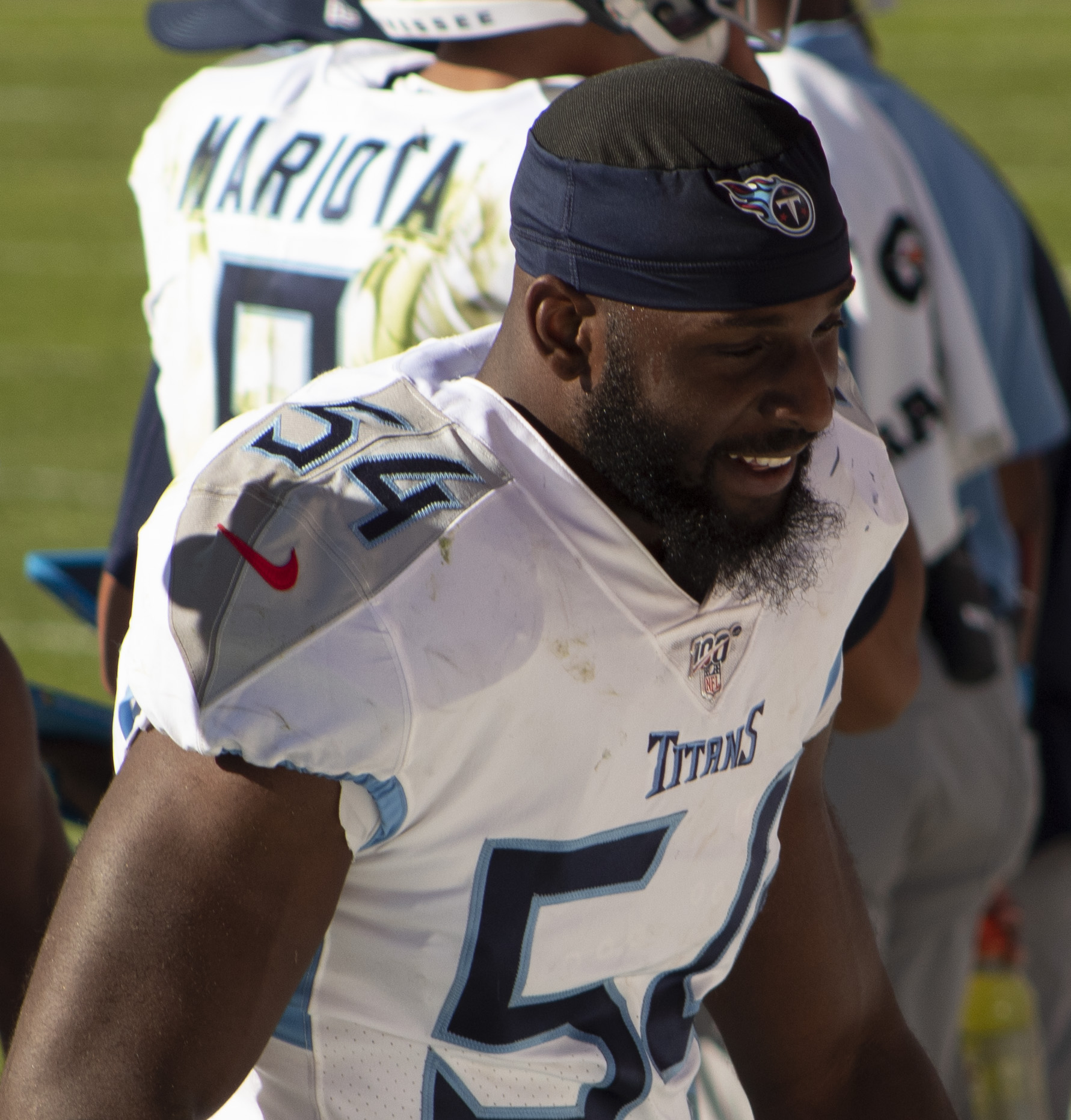 Rashaan Evans with the Tennessee Titans on October 13, 2019